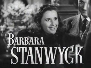 Cropped screenshot of Barbara Stanwyck from the trailer for the film Meet John Doe